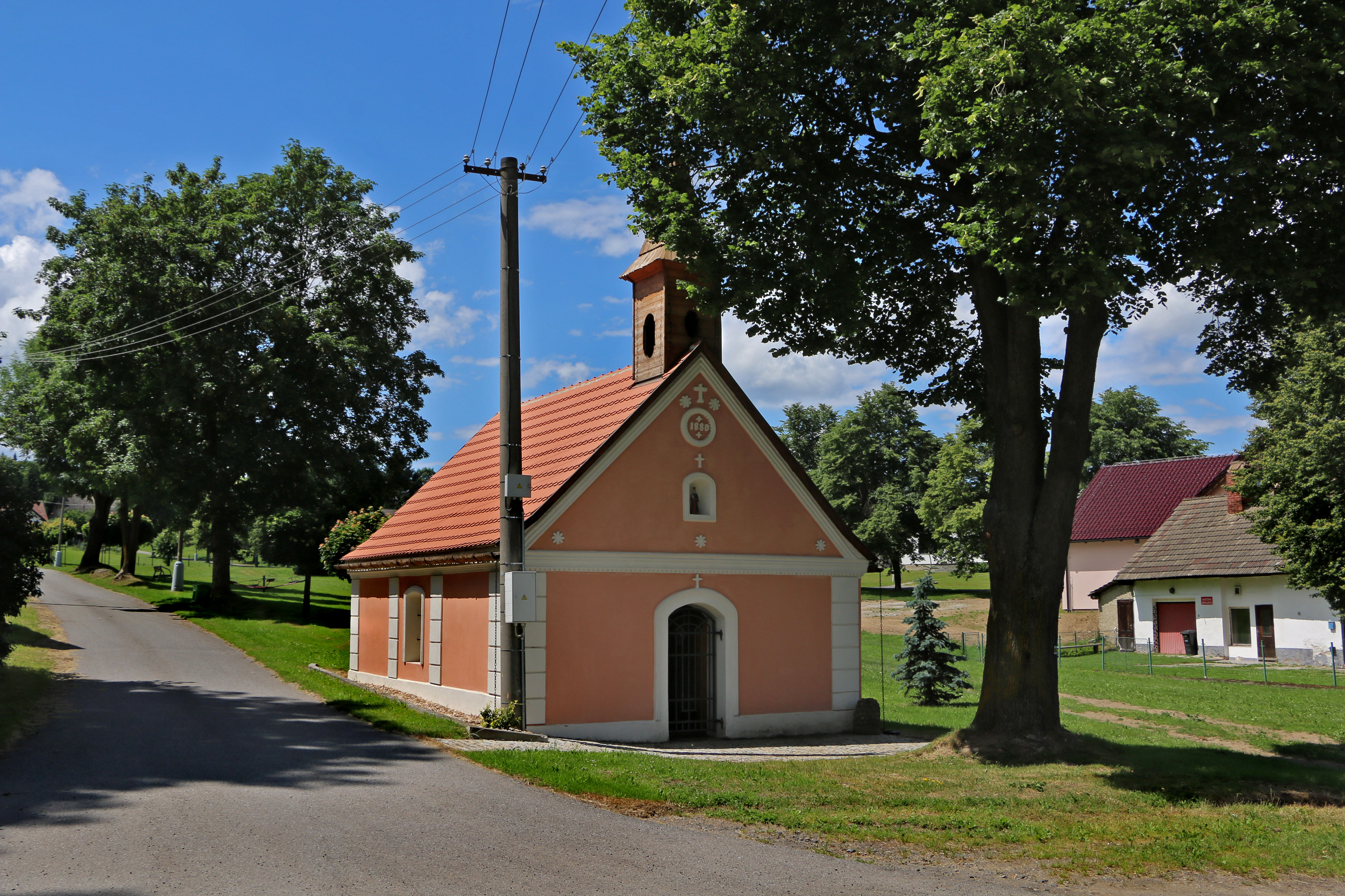 Chapel in Suchá village, Czech Republic.